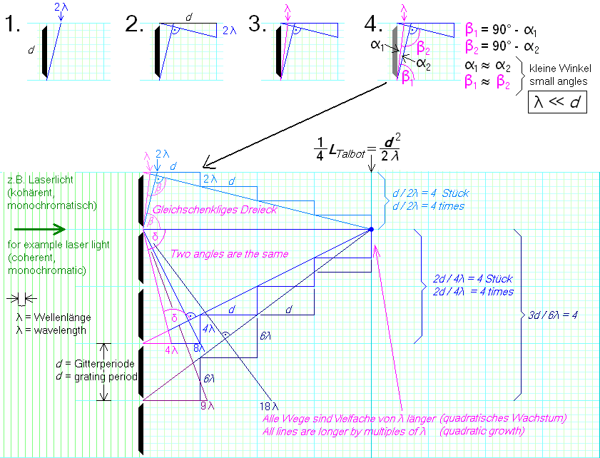 Near field interference / Talbot-Effect at a grating: Plane waves show constructive interference at distance L_Talbot/4 = d*d / (2*lambda). Precondition: Narrow Slits in a transmission grating. This shows that d/lambda can be interpreted as a slope OR as a multiplicity.